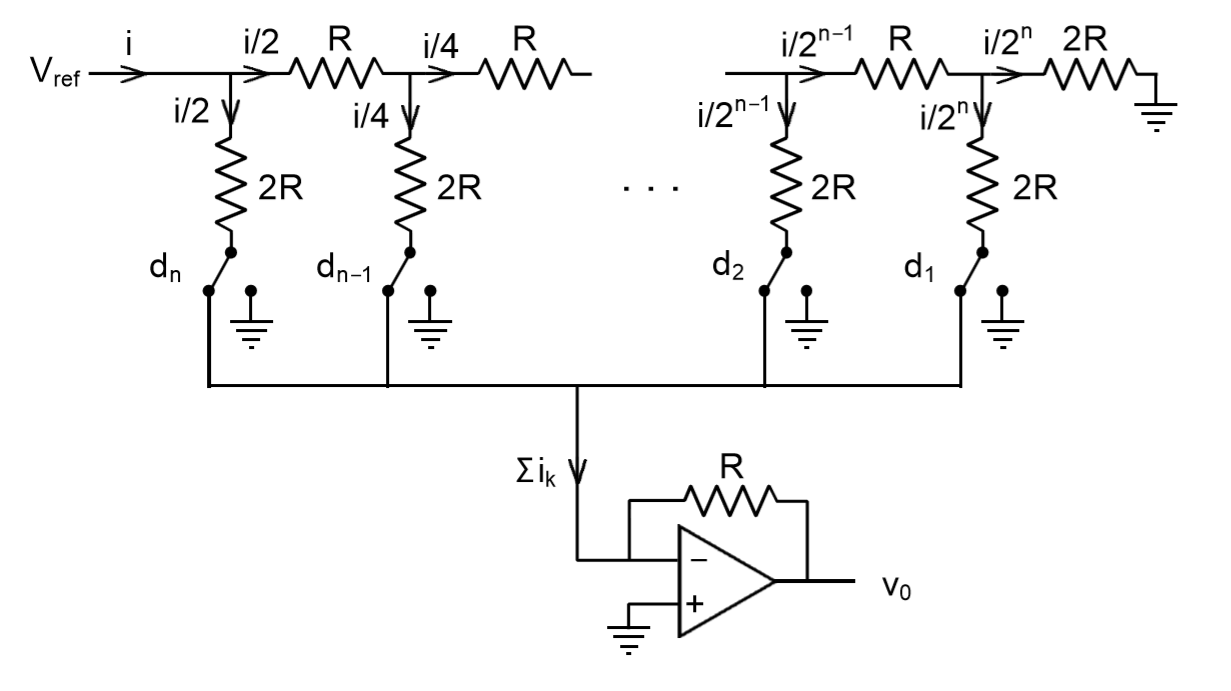 Implementación red R-2R corriente